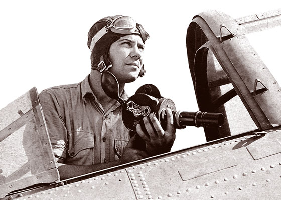 SSgt W.G. Wilson, USMC, Combat Cameraman with 2nd Marine Air Wing in South Pacific.Staff Sergeant William G. Wilson was a combat cameraman and Marine aviator assigned to both the 1st and 2nd Marine Air Wings in the South Pacific during World War II. he saw action on Guadalcanal, Bougainville, Peleliu, Munda, Espiritu Santo, Rabaul, Leyte Gulf and New Georgia in the British Solomon Islands. Though primarily assigned as a motion picture cameraman, he also produced still photos and was a qualified tail-gunner. He flew numerous combat missions, protecting pilots from the back of diver bombers and other Marine aircraft. For courage under fire on one critical aerial photo mission he was personally awarded a commendation by Admiral Chester W. Nimitz.